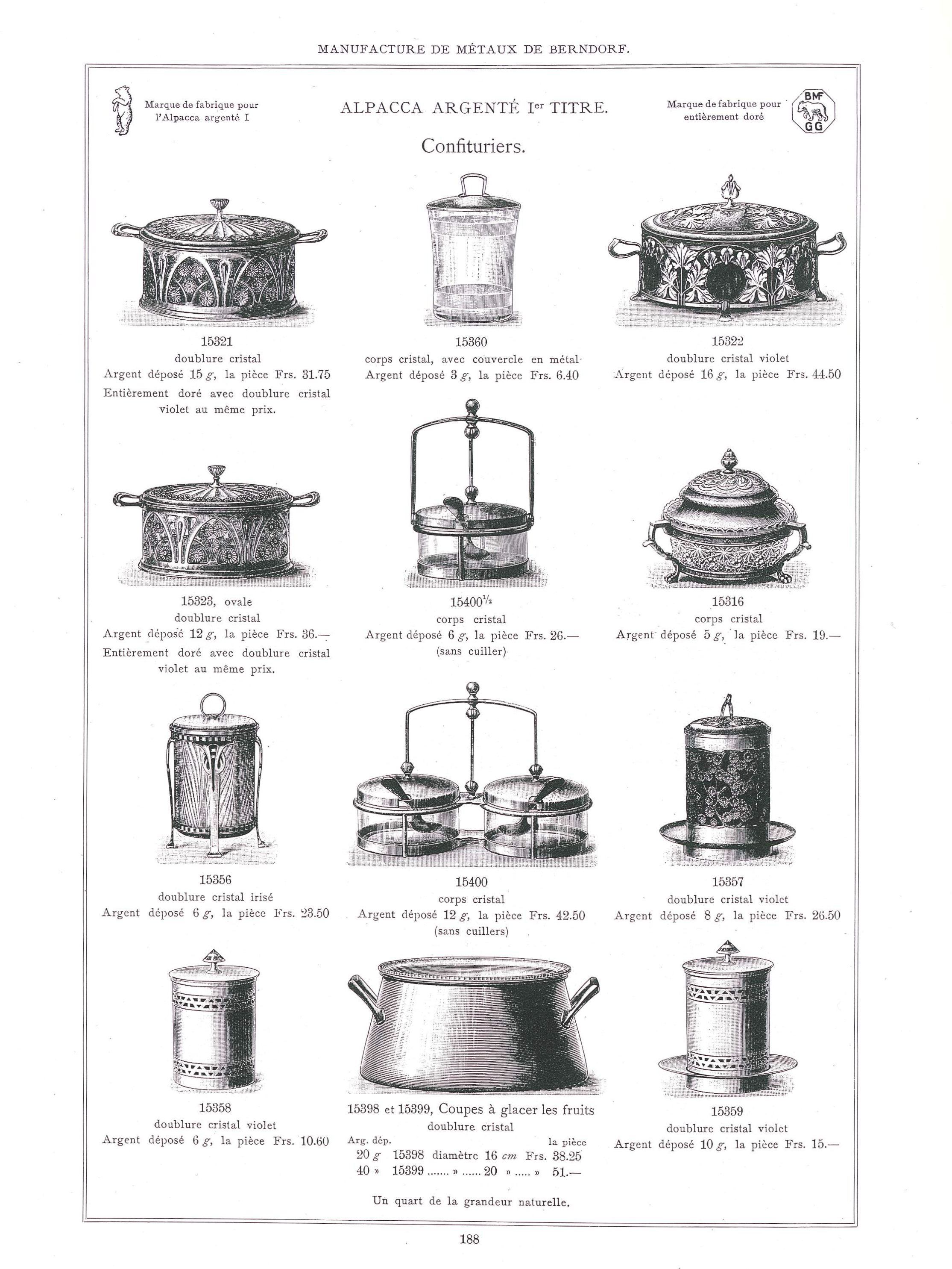 Catalogue of the Berndorfer Metallwarenfabrik. Page 188.